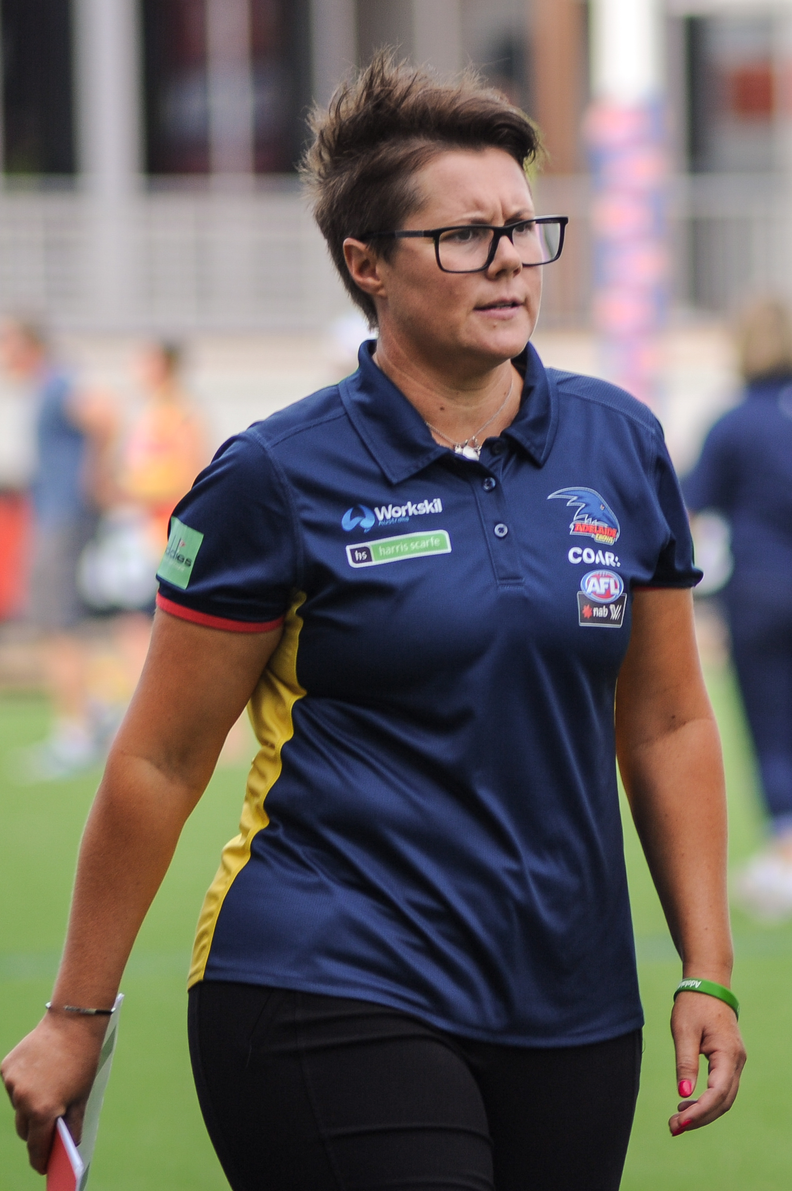 Bec Goddard during the AFL Women's round six match between Adelaide and Melbourne on 11 March 2017 at TIO Stadium in Darwin, Northern Territory